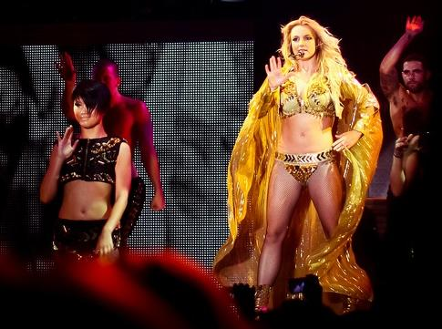 Britney Spears performing "Boys" at 2011's Femme Fatale Tour live in Ukraine.